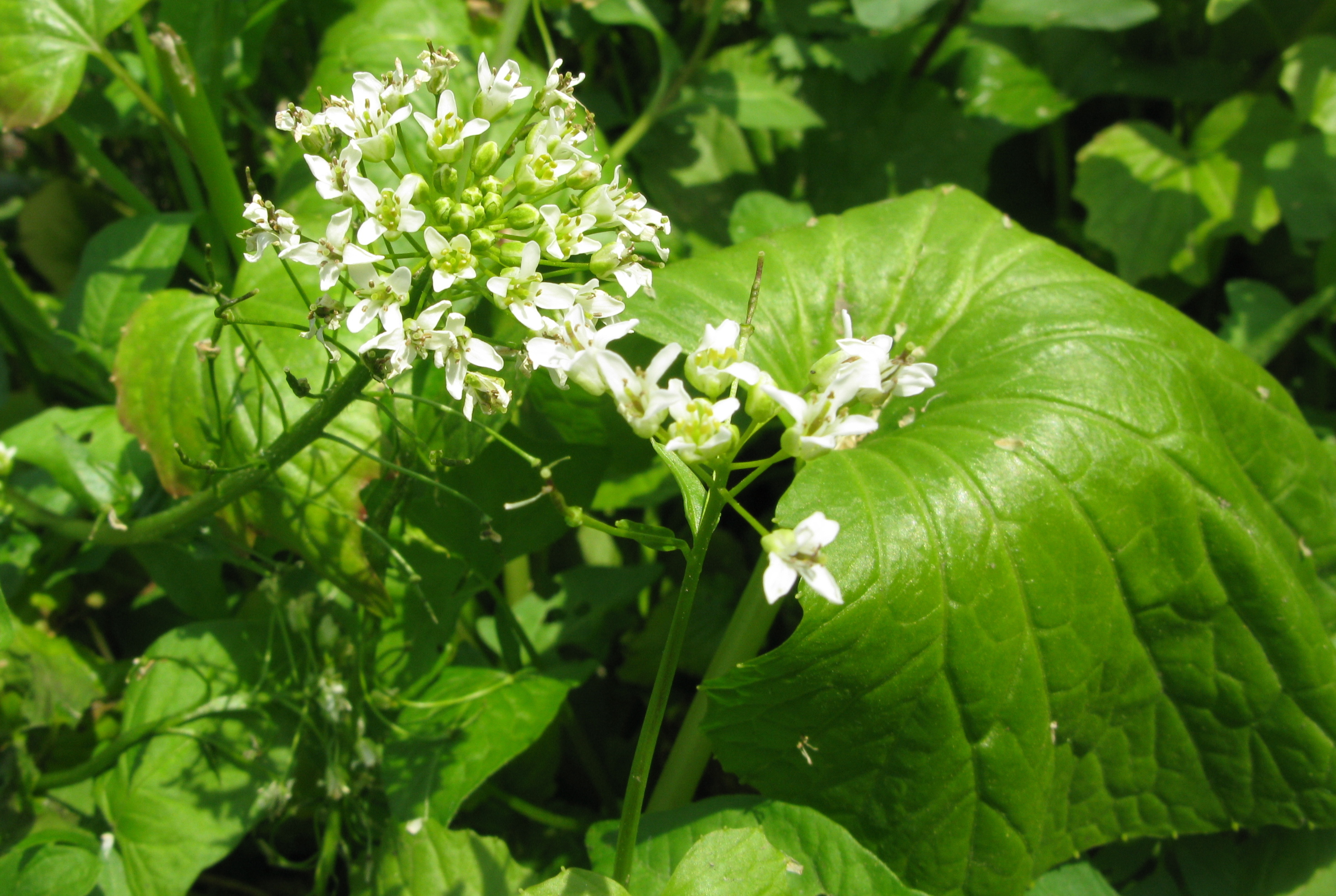 Wasabia japonica, Aizu area, Fukushima pref., Japan